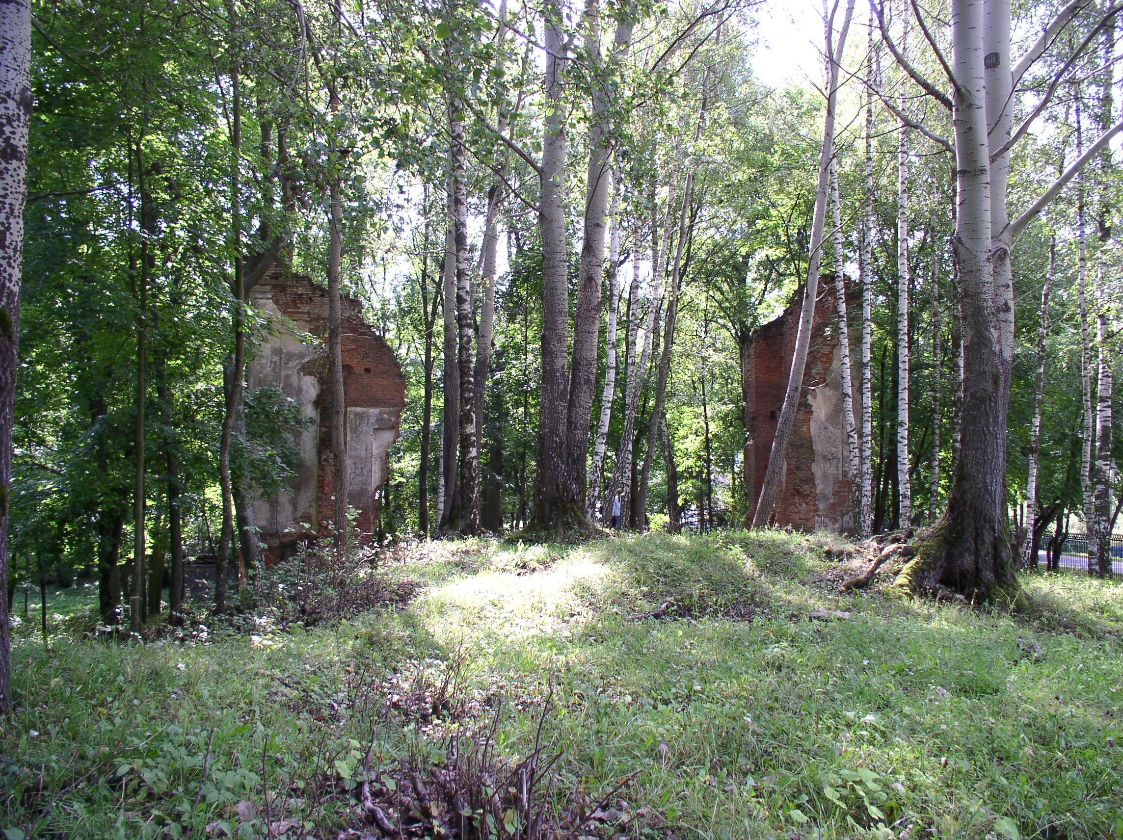 Ruins of the Tyshkievich family manor. Lahoisk, Belarus.